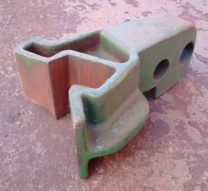 Willison coupler adapter for Bell-and-hook couplers, as used on the Avontuur Railway in the Eastern Cape.